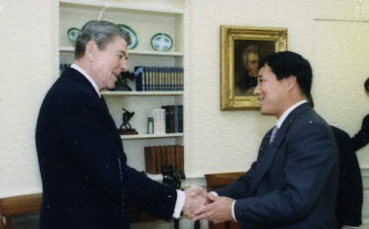 Ronald Reagan meets Hiro Yamagata to discuss Regan's official Presidential Portrait that Yamagata will paint